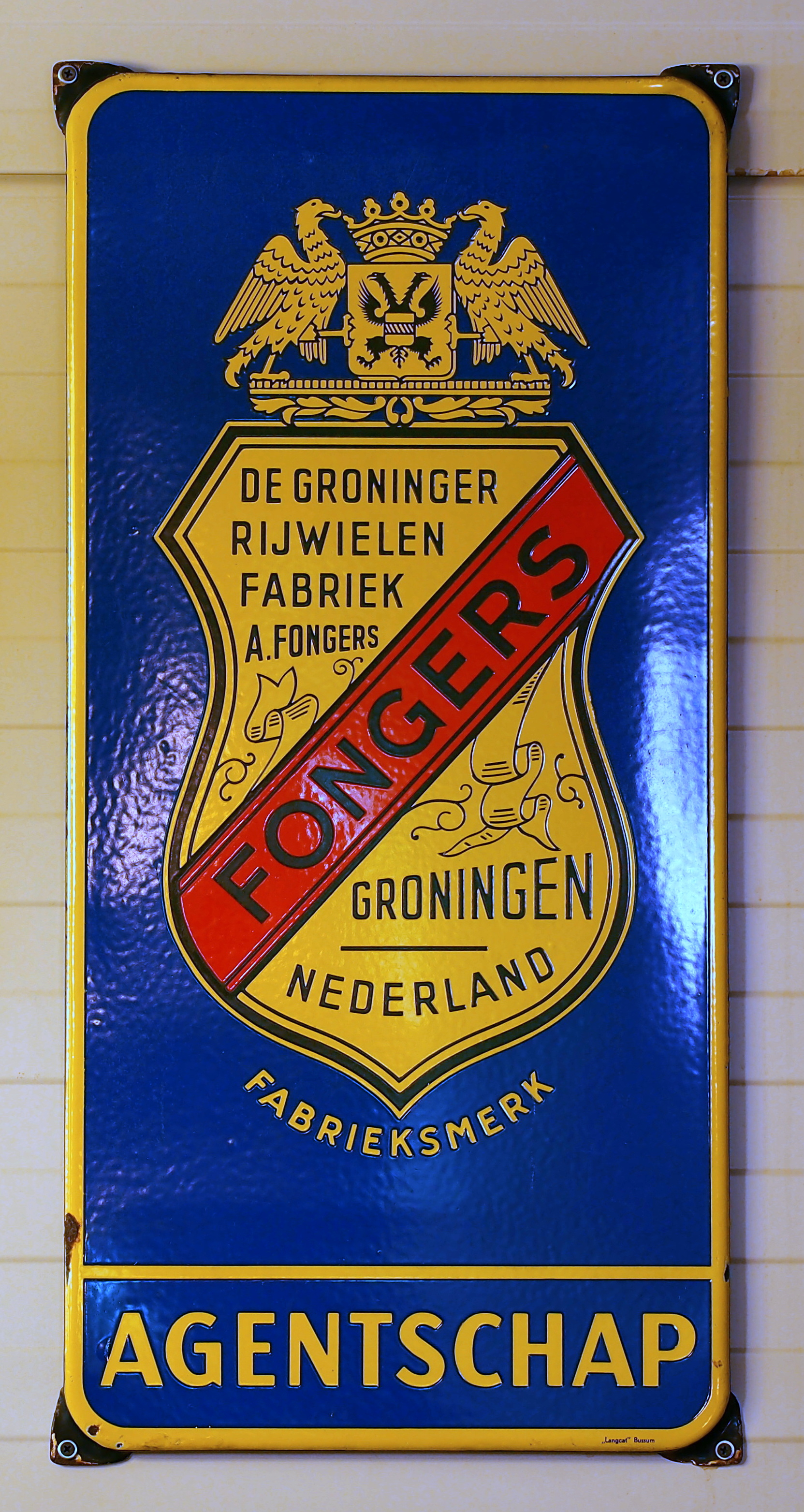 Photographed in the museum Terug in de Tijd, Horn, The Netherlands.